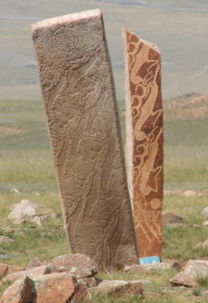 Deer stone site near Mörön in Mongolia